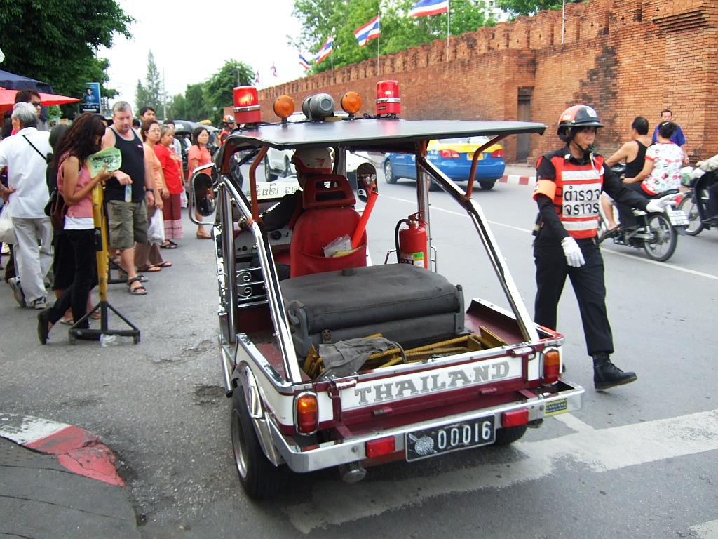 Tuk-tuk used as a police vehicle. Photo taken at Tapae Gate during the Sunday Evening Walking Market in Chiang Mai, Thailand.